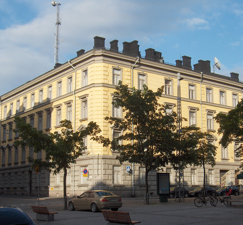 Head office of Supo, the Finnish Security Intelligence Service, in Helsinki. It functioned similarly as head office for its predecessors, Etsivä keskuspoliisi (1919–38), Valtiollinen poliisi I "White Valpo" (1939–45), Valtiollinen poliisi II "Red Valpo" (1945–48). Supo has been operational since 1 January 1949.